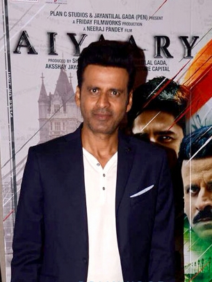 Manoj Bajpayee at a promotional event for Aiyaary.